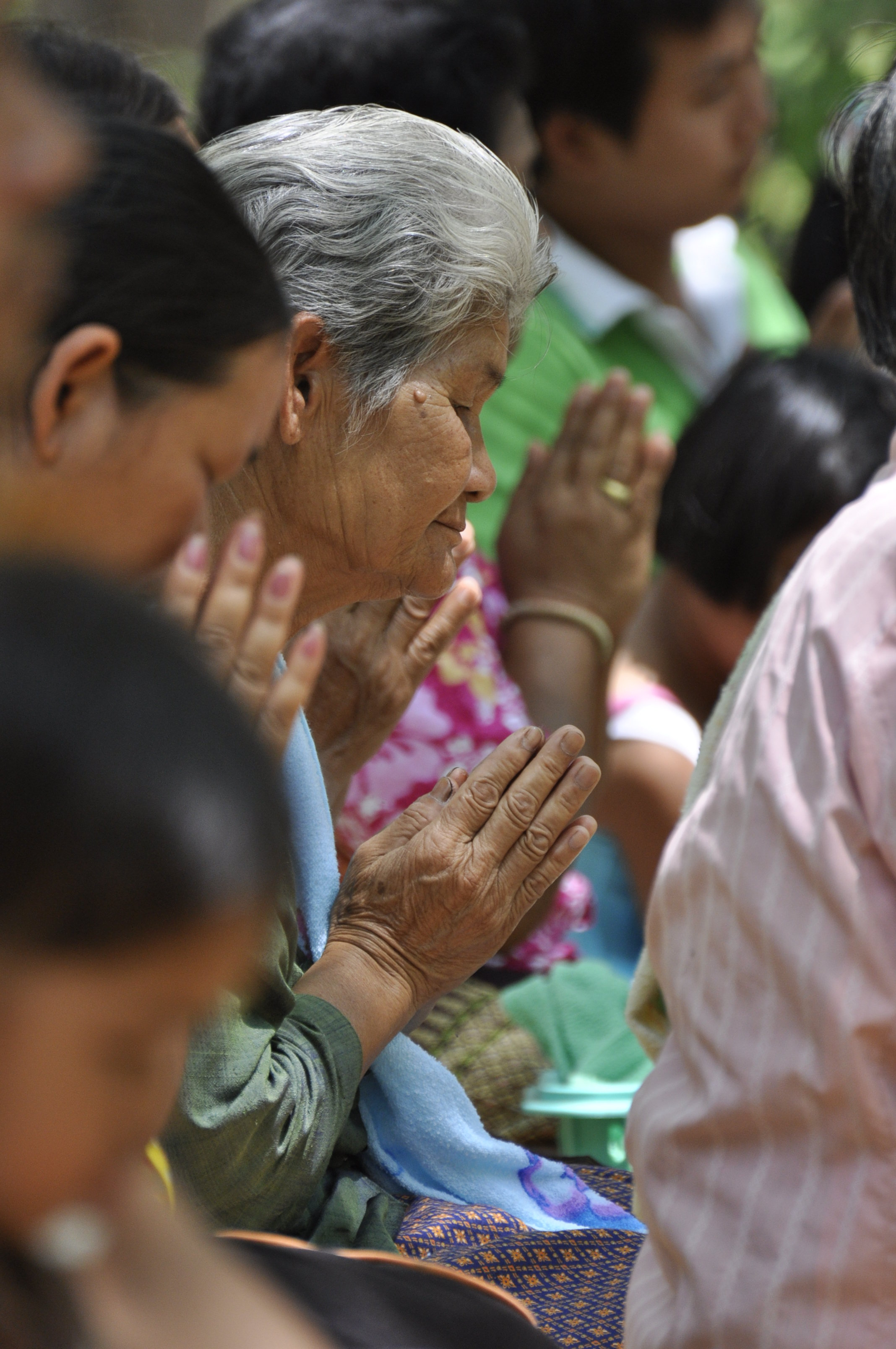 Old woman performing a wai in a crowd.